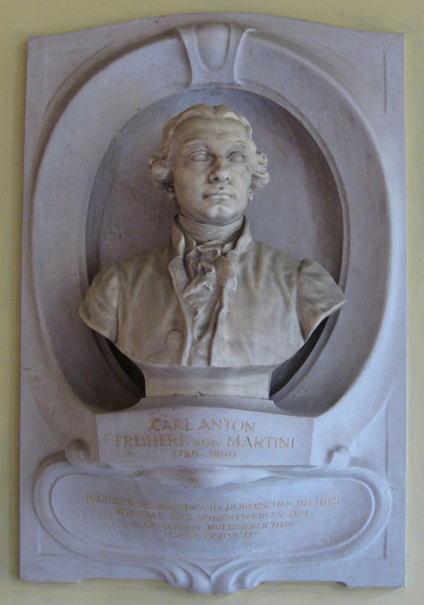 Carl Anton Freiherr von Martini (1726-1800), Austrian professor for roman law and writer of the draft for the "Allgemeines bürgerliches Gesetzbuch", the Austrian Code of Civil Law; sculpture at the colonnade of the main building of the University of Vienna.